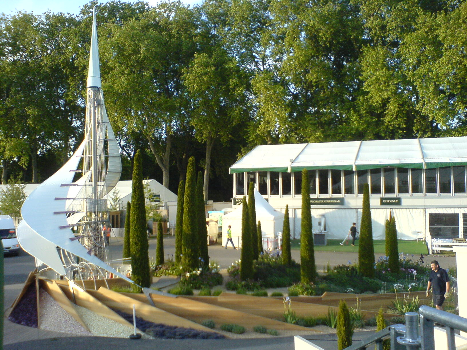 The Perfume Garden, designed by Laurie Chetwood and Patrick Collins